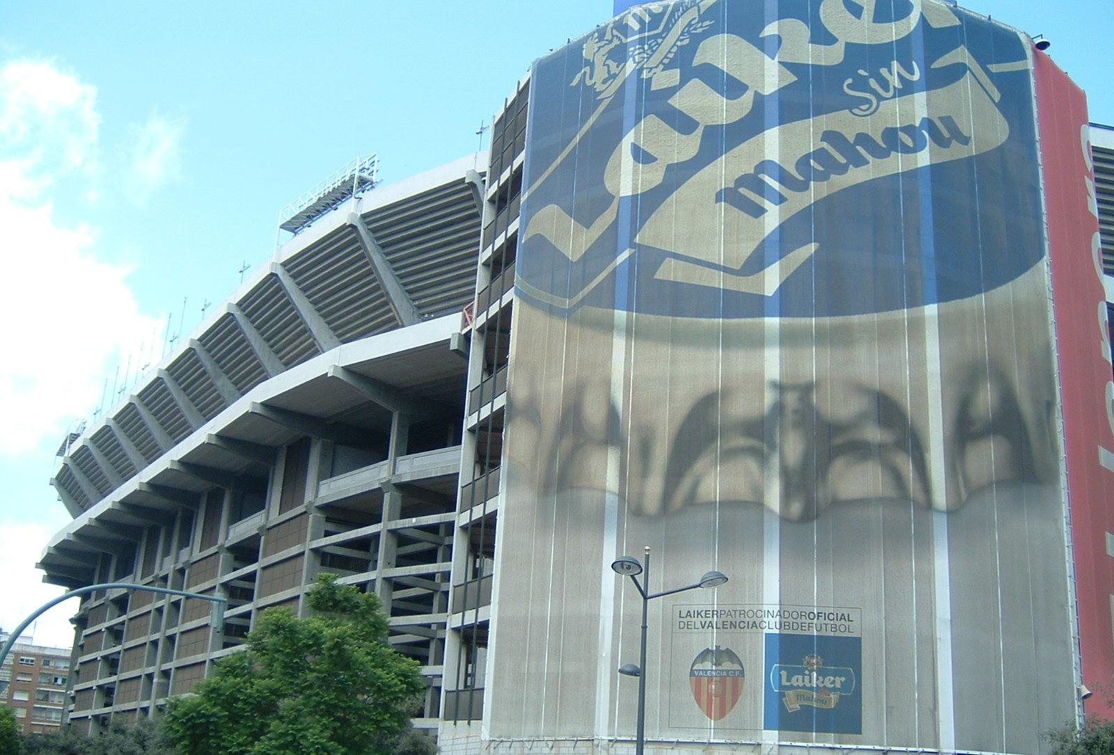 Personal picture of Mestalla stadium in Valencia in Spain.